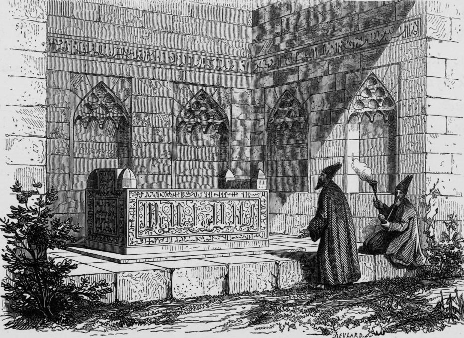 Tomb of Poet Saadi